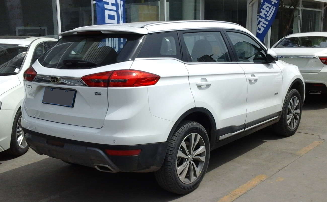 Geely Boyue photographed in Xi'an, Shaanxi province, China.